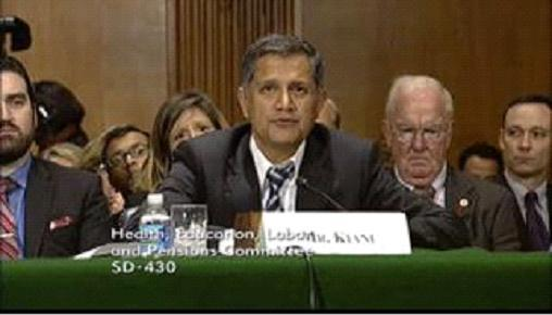 Joe Kiani, founder of the Patient Safety Movement Foundation, testifies at the U.S. Senate HELP Committee, Sept. 24, 2013.